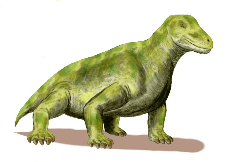 Moschops capensis, a Tapinocephalian from the Middle Permian of South Africa, pencil drawing